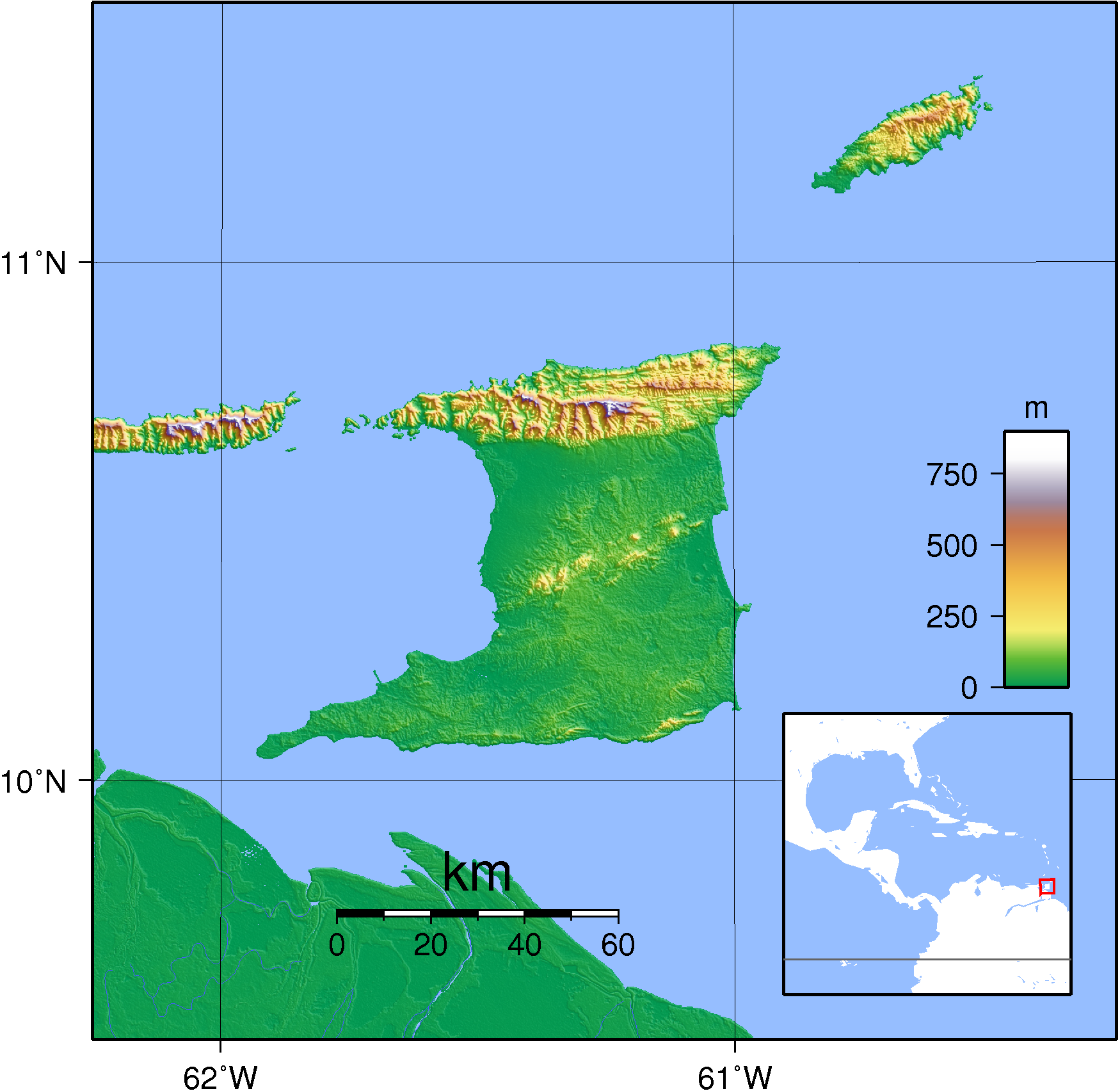 Topographic map of Trinidad and Tobago. Created with GMT from SRTM data.